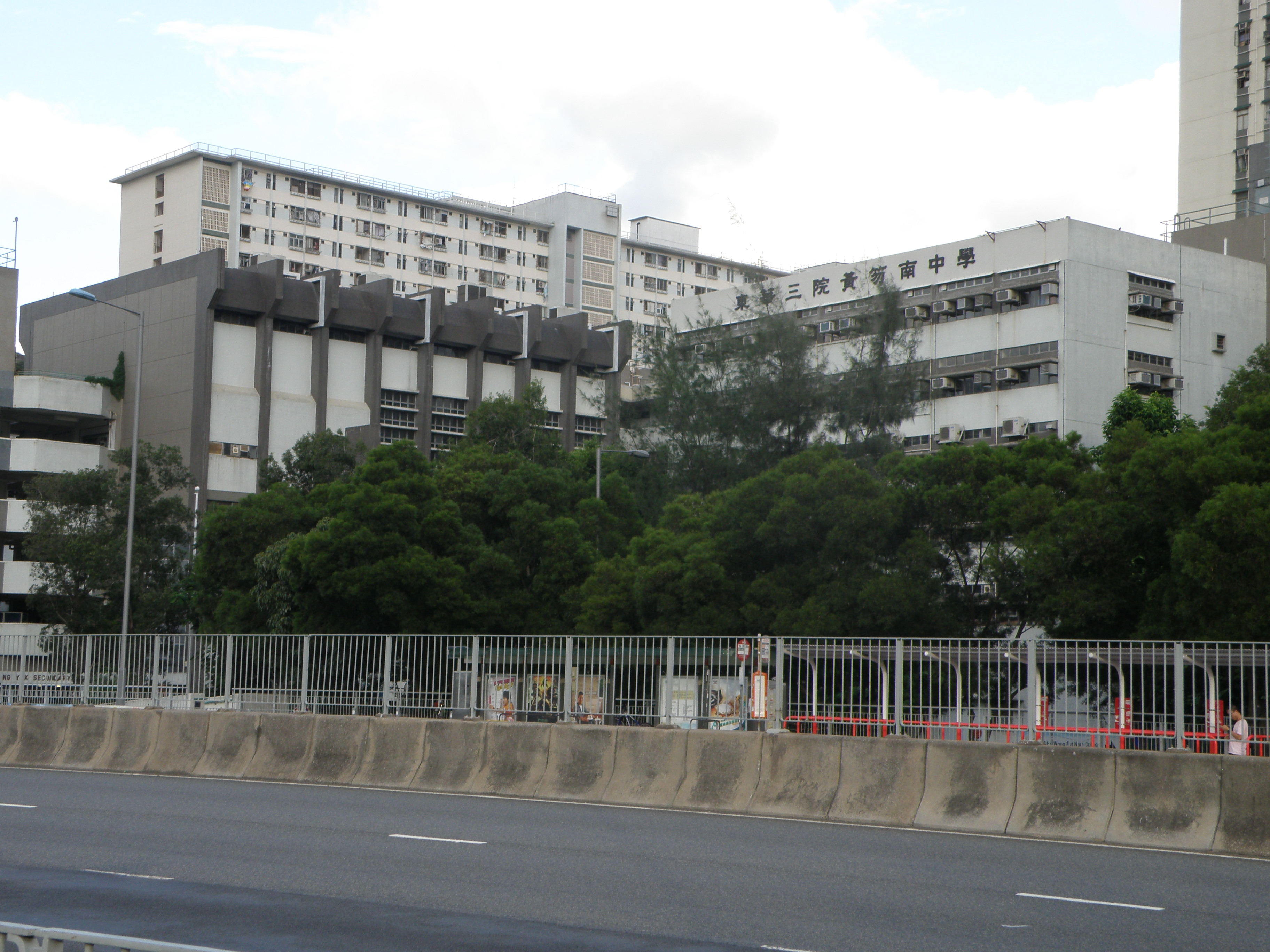 Tung Wah Group of Hospitals Wong Fut Nam College (Temporary schoolhouse in Tai Wai, Hong Kong)